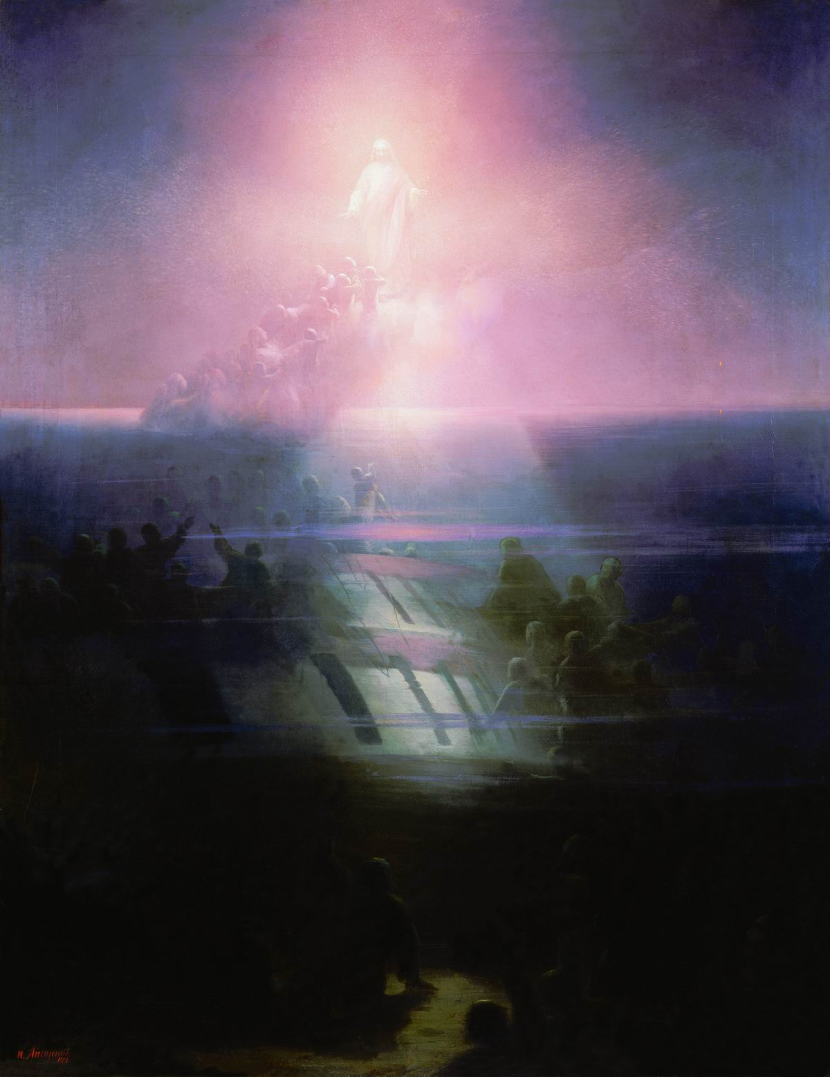 Shipwreck of "Lefort"label QS:Len,"Shipwreck of "Lefort""label QS:Lru,"Гибель корабля "Лефорт""